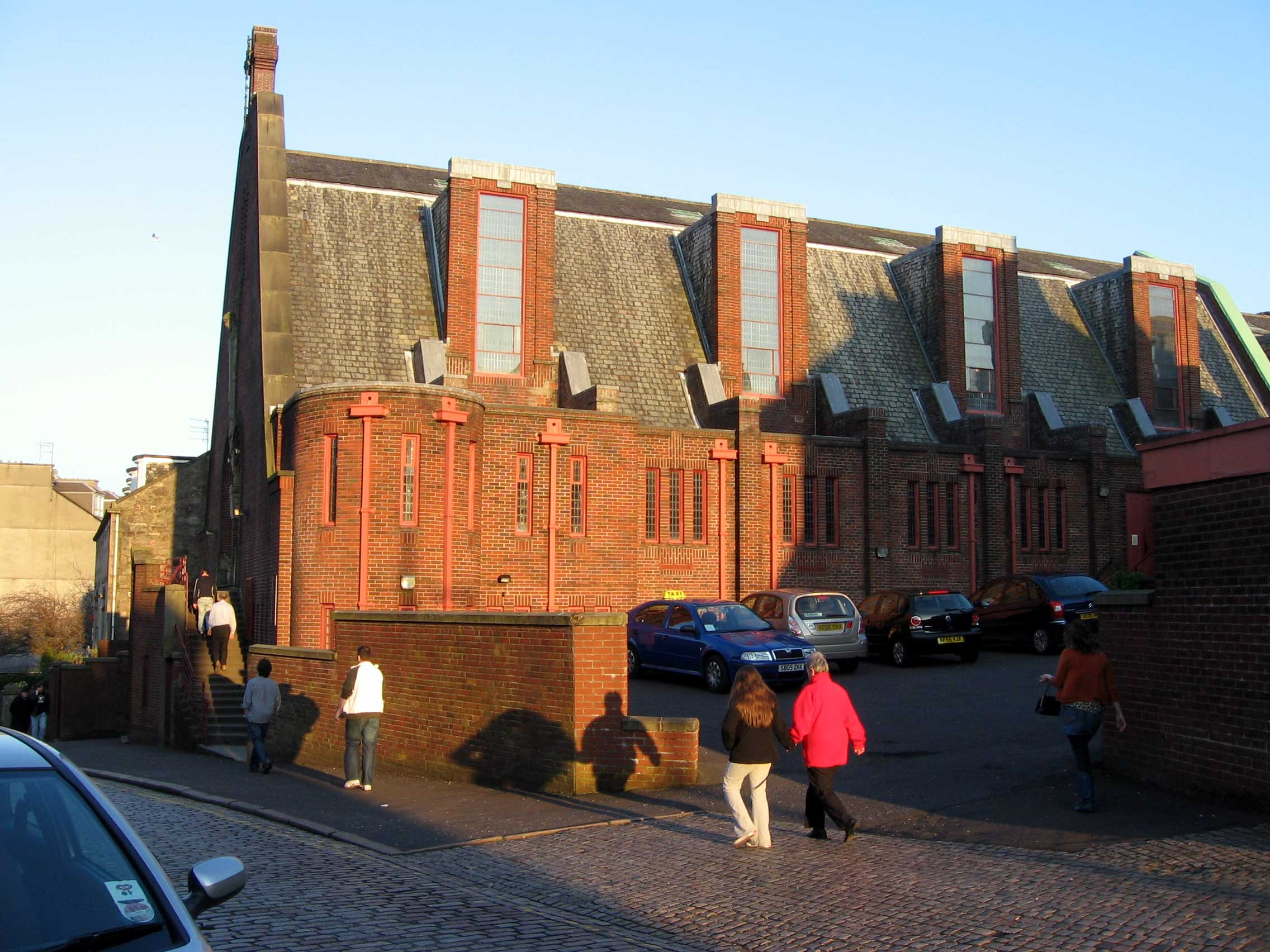 St. Patrick's, Orangefield, Greenock, by Gillespie, Kidd & Coia.